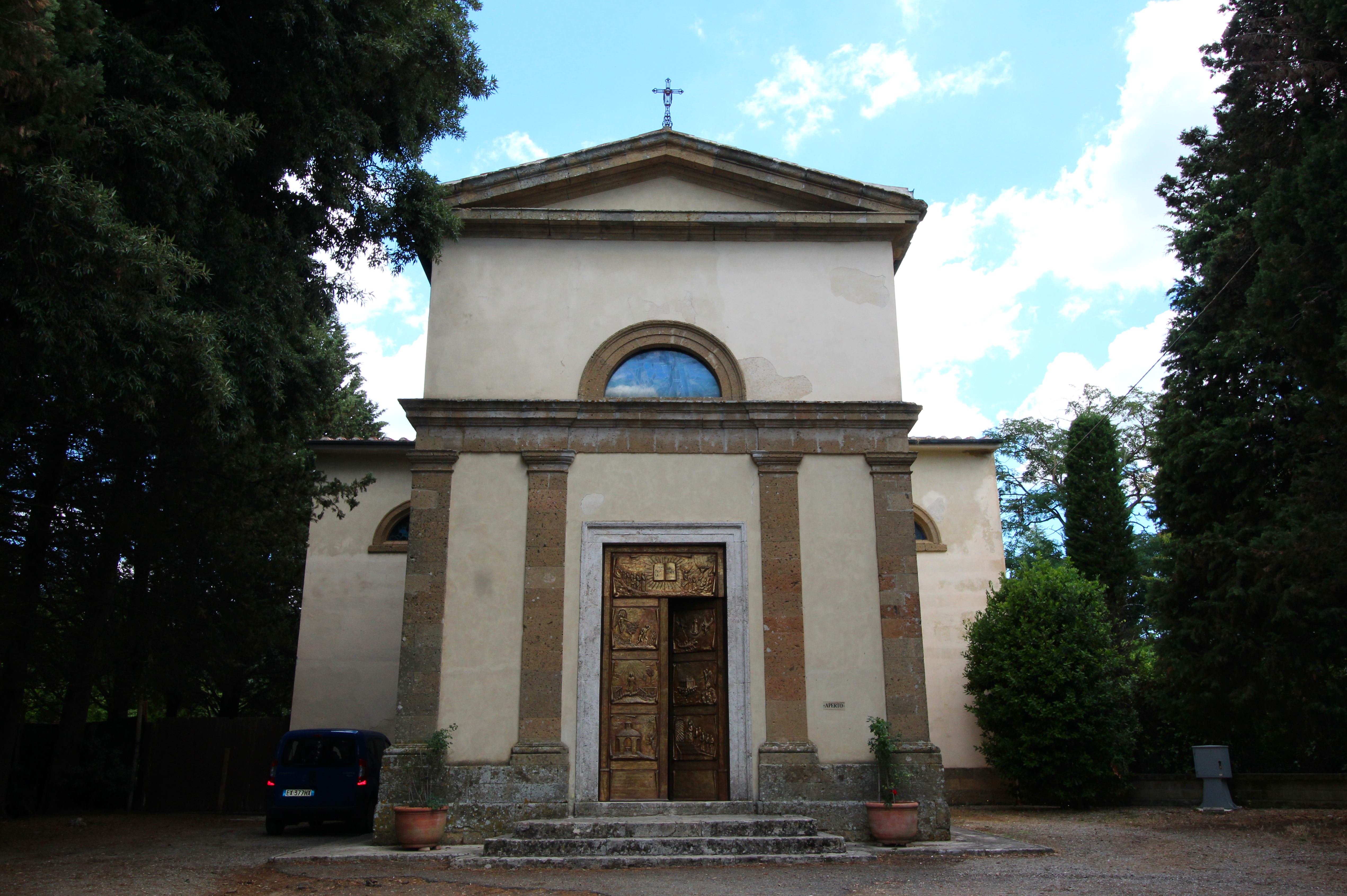 Sanctuary Madonna del Cerreto, Cerreto, hamlet of Sorano, Province of Grosseto, Tuscany, Italy